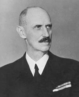 I believe the copyright on this image has lapsed due to the time since it was made. According to Norwegian copyright law, the following applies: Sec. 43a. A person who produces a photographic picture shall have the exclusive right to make copies thereof by photography, printing, drawing or any other process, and to make it available to the public. The exclusive right to a photographic picture shall subsist during the lifetime of the photographer and for 15 years after the expiry of the year in which he died. but for not less than 50 years from the expiry of the year in which the picture was produced. Judging from the apparent age of King Haakon relative to other photographs of known age, I estimate this photograph to have been made circa 1935. Unless the photographer was a youth at the time or was remarkably long-lived, I believe one can make a reasonable assumption that the requisite 15 years has lapsed. The image derived from an undated picture postcard labeled Foto: Rude and Enerett: Abels Kunstforlag.